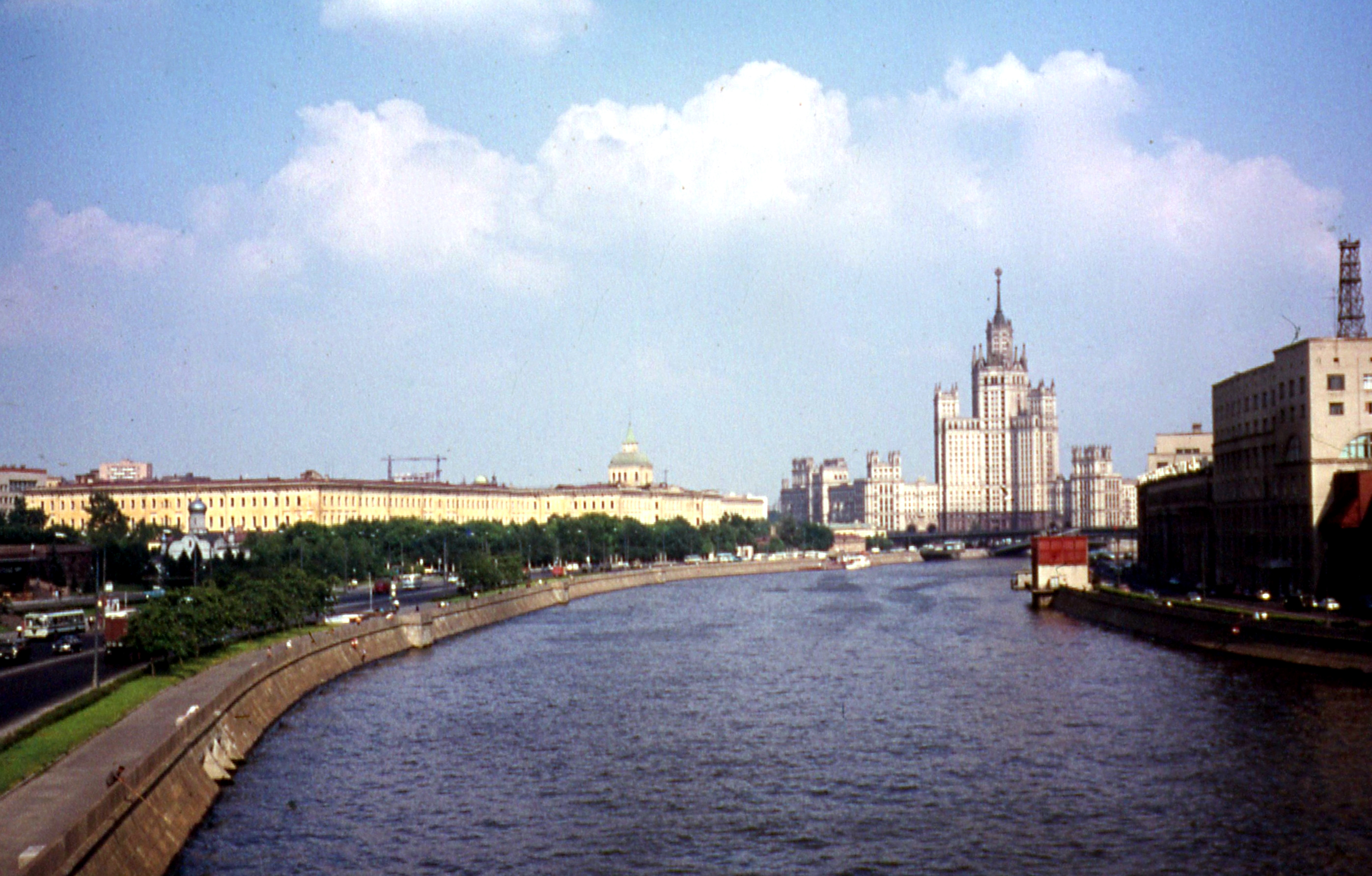 Skyscraper on Kotelnicheskaya Embankment￼ and Moscow river, July 1973